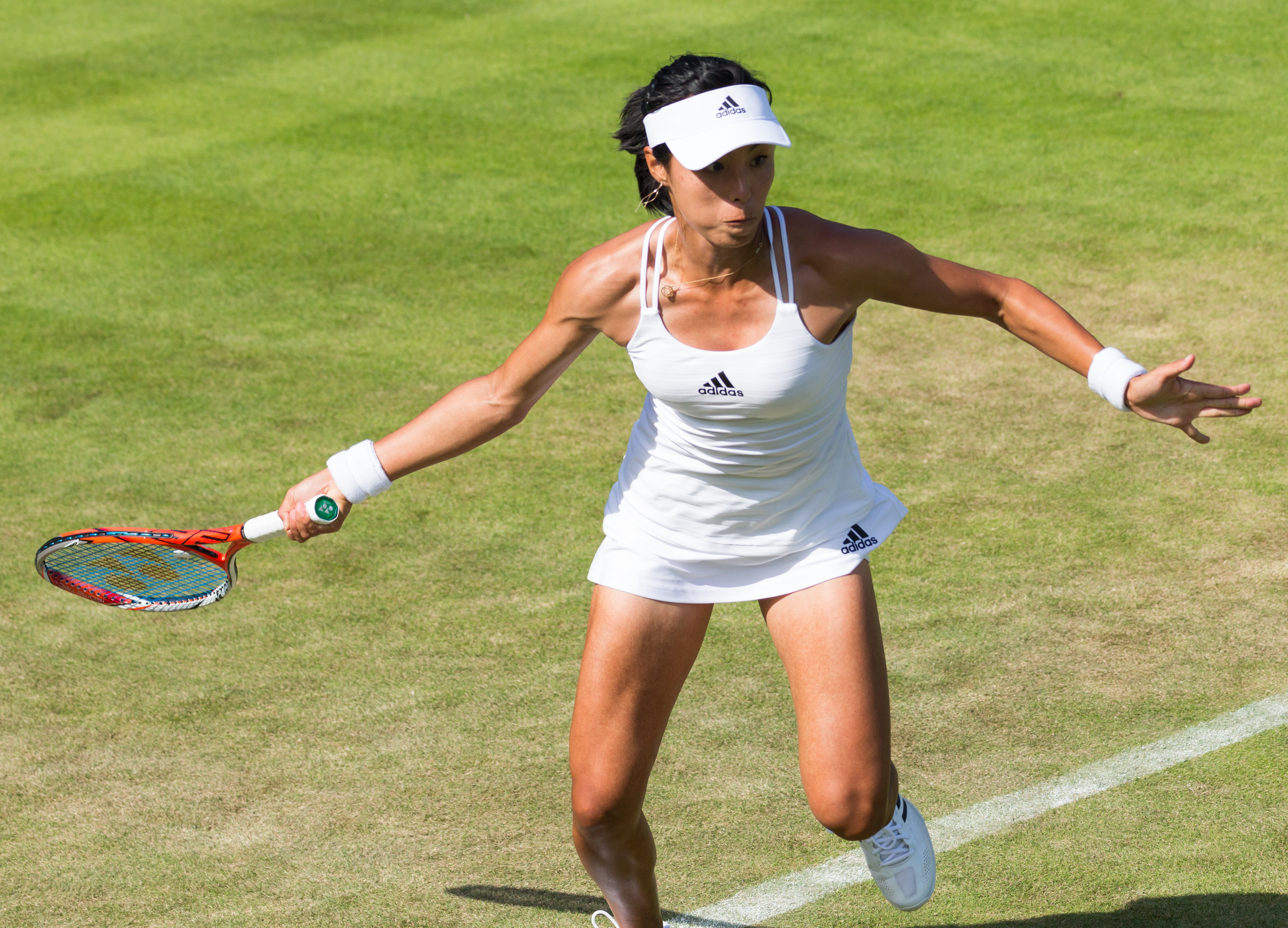 Wang Qiang competing in the first round of the 2015 Wimbledon Championships.